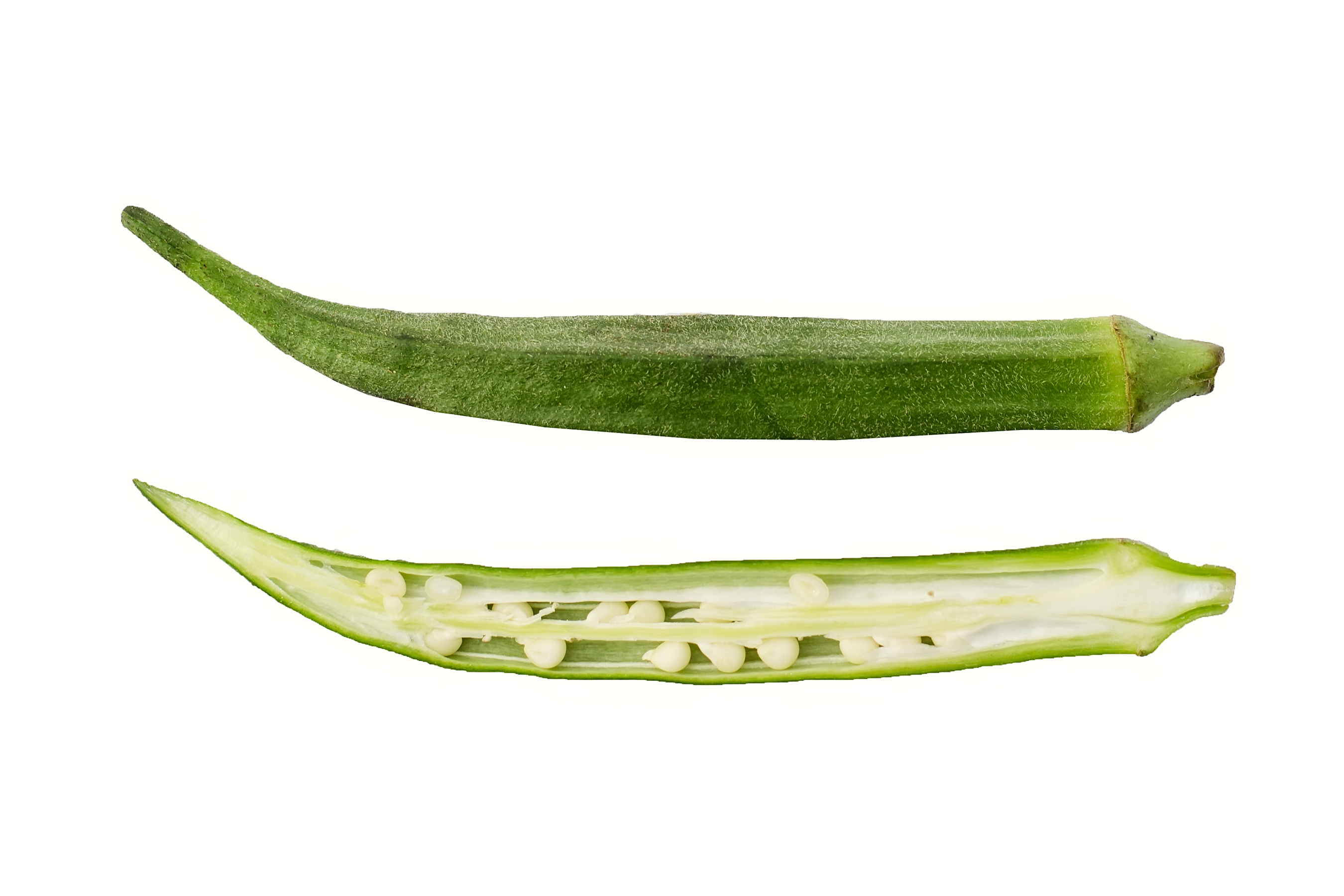 Ladies' Finger Cross section